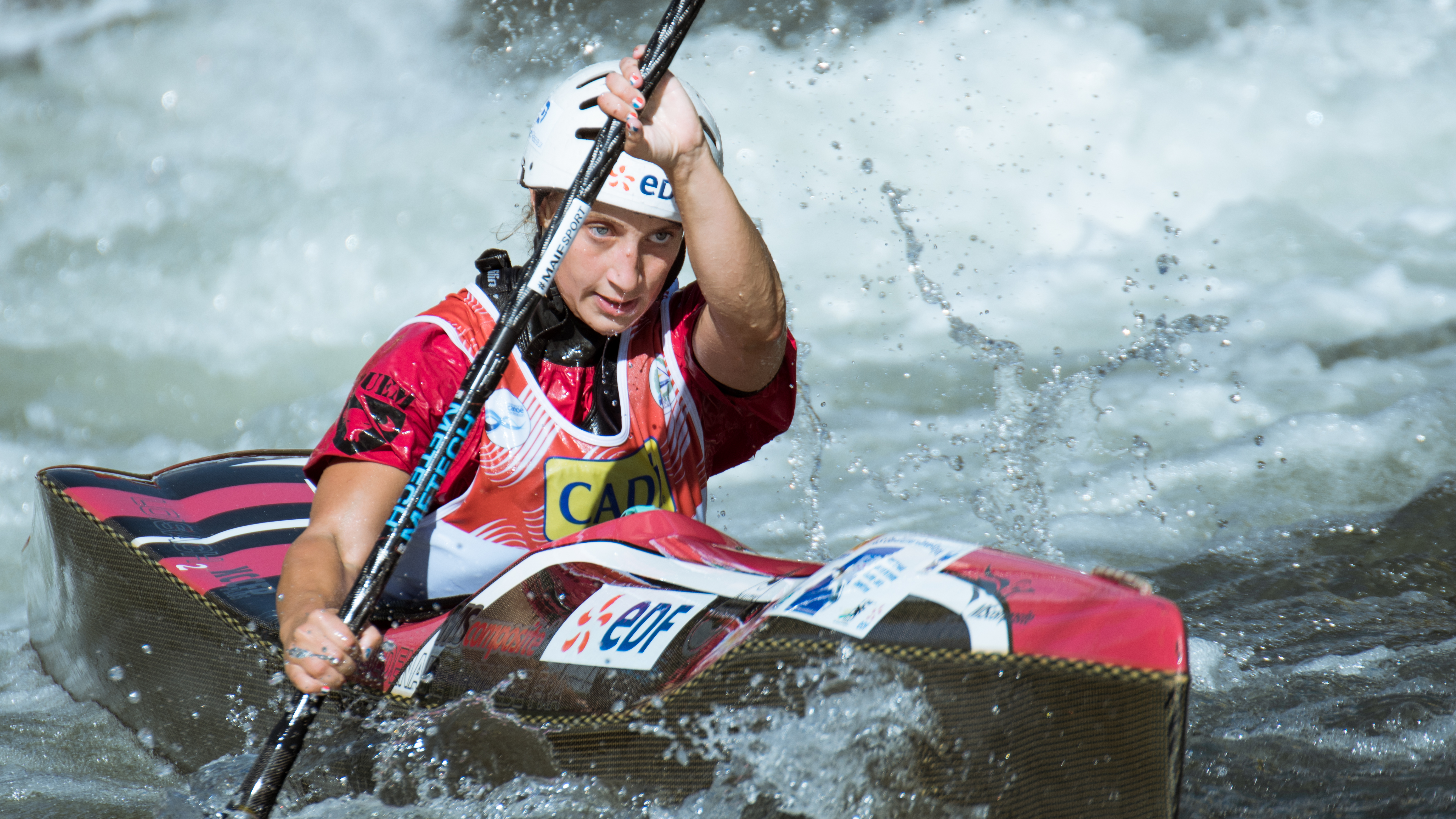 Mathilde Valdenaire during the 2019 Canoe Wildwater World Championships in La Seu d'Urgell, Spain.